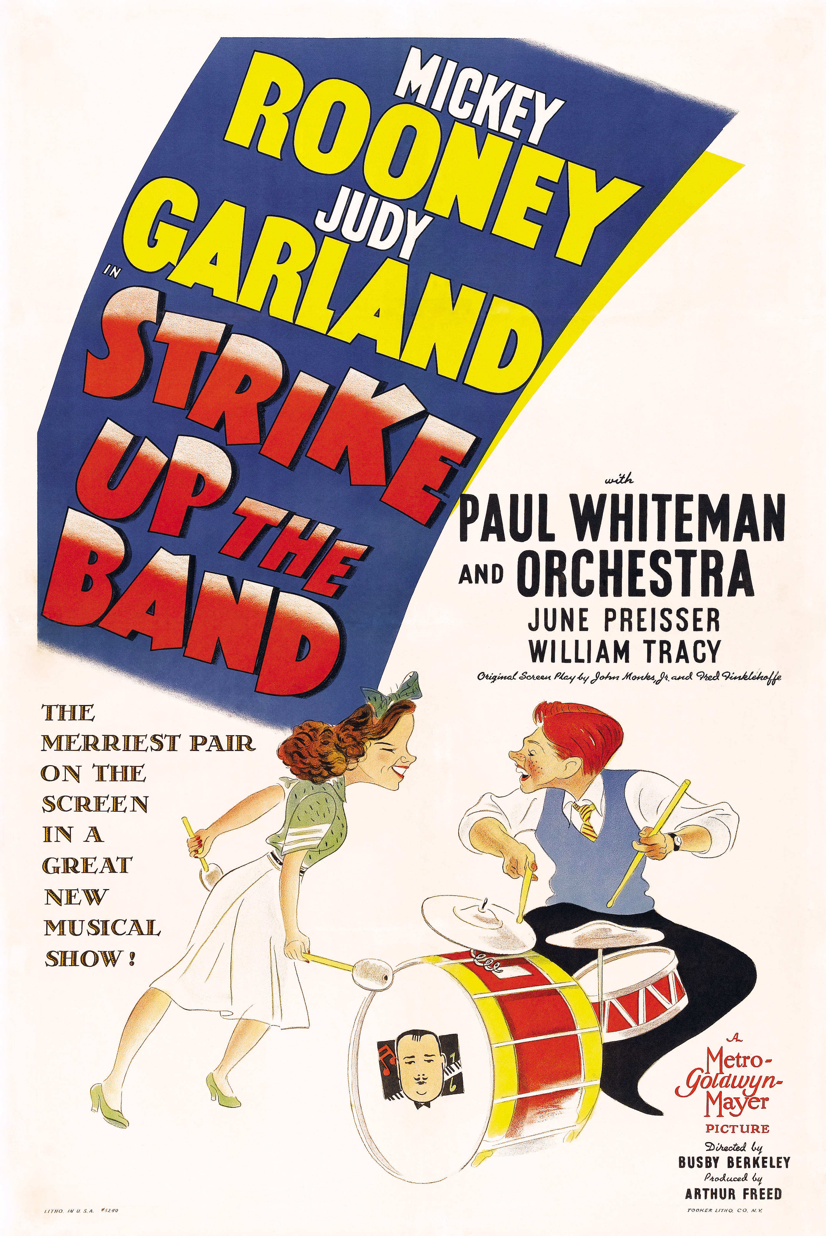 Poster for the 1940 film Strike Up the Band. The item has no copyright markings on it as can be seen in the links above. At bottom left is Litho in USA #5240 At bottom right is Tooker Litho Co. NY-they printed the poster.